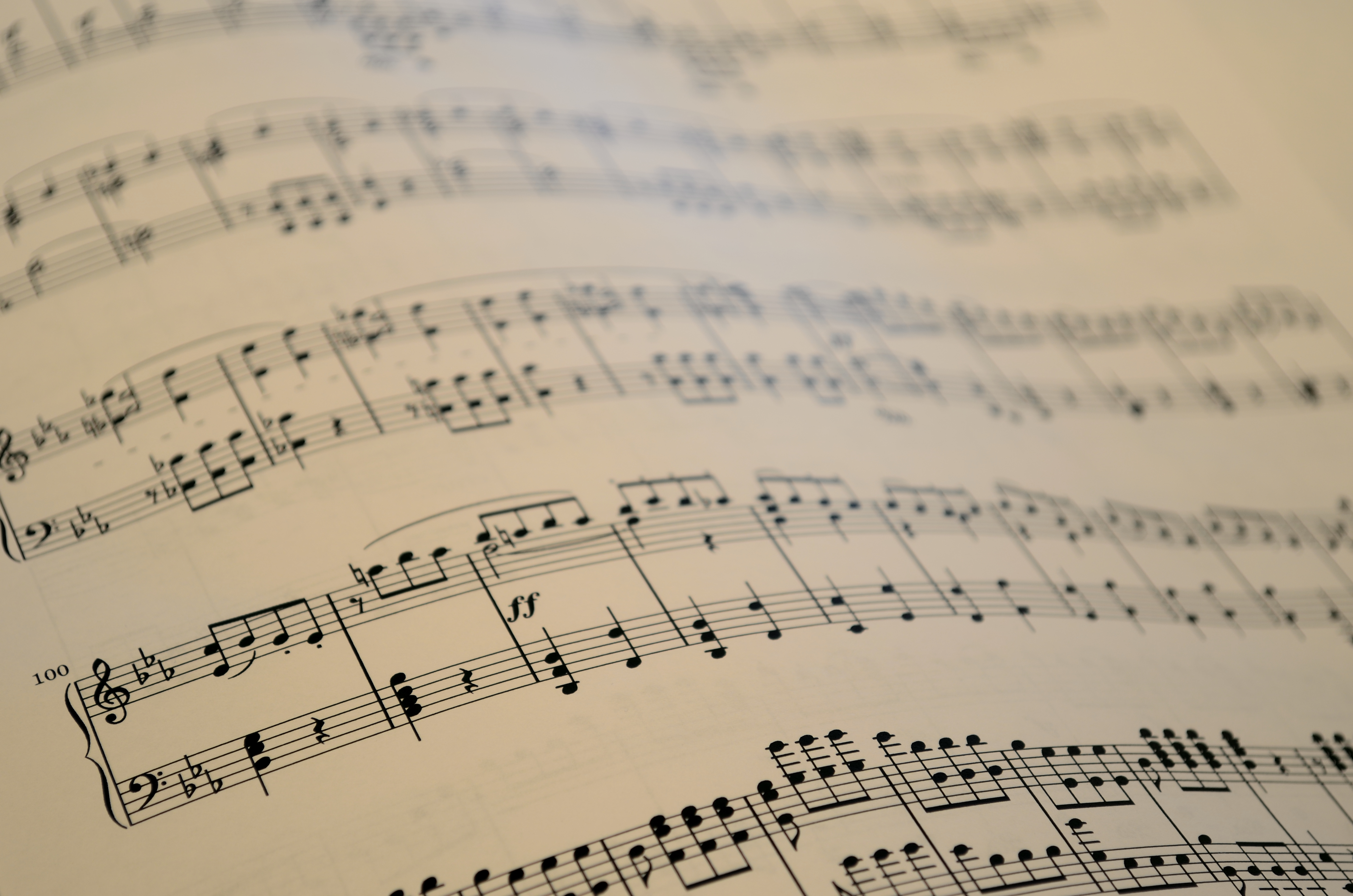 Beethoven Sympony No. 5 - sheet music by the Mutopia Project.